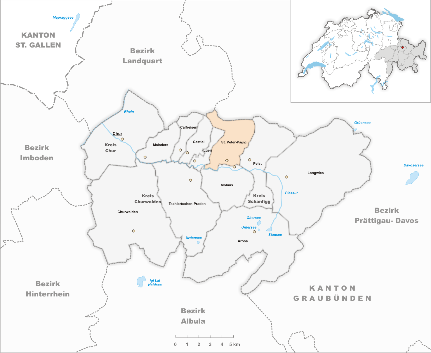 Municipality St. Peter-Pagig